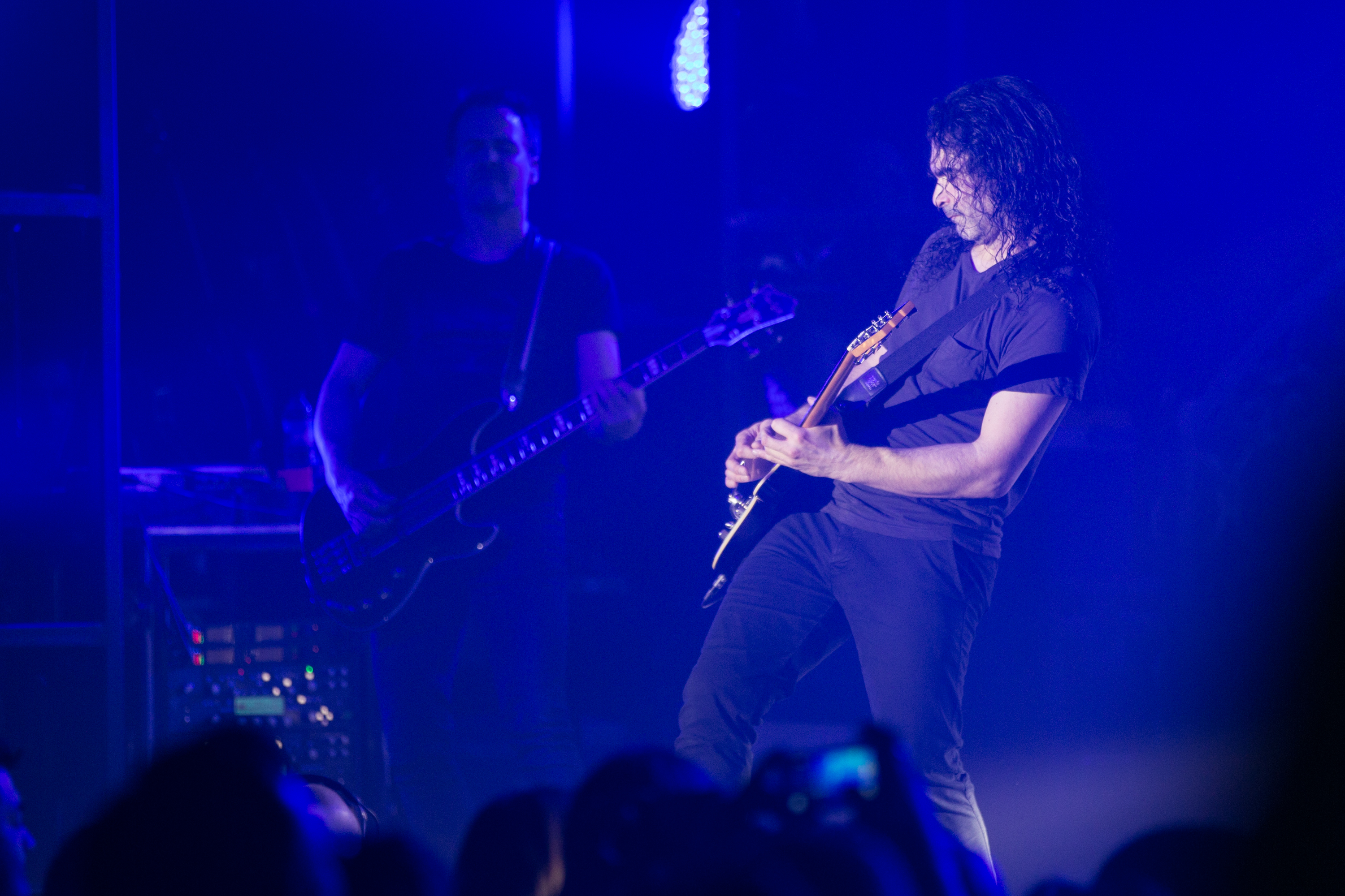 Avantasia at Turbinenhalle Oberhausen on 20th March 2016